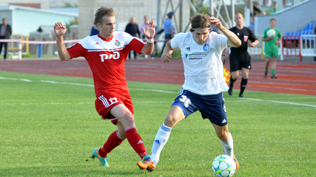 Konstantin Skrylnikov player FC Fakel Voronezh